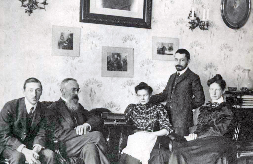 Photo taken in the living room of Nikolai Rimsky-Korsakov. From left to right: Igor Stravinsky, Rimsky-Korsakov, his daughter Nadezhda Rimskaya-Korsakova, her fiancé Maximilian Steinberg, and Yekaterina Gavrilovna Stravinskaya née Nosenko, Stravinsky’s first wife. Taken in 1908 shortly before the death of Rimsky-Korsakov. Photo published in a Russian newspaper.